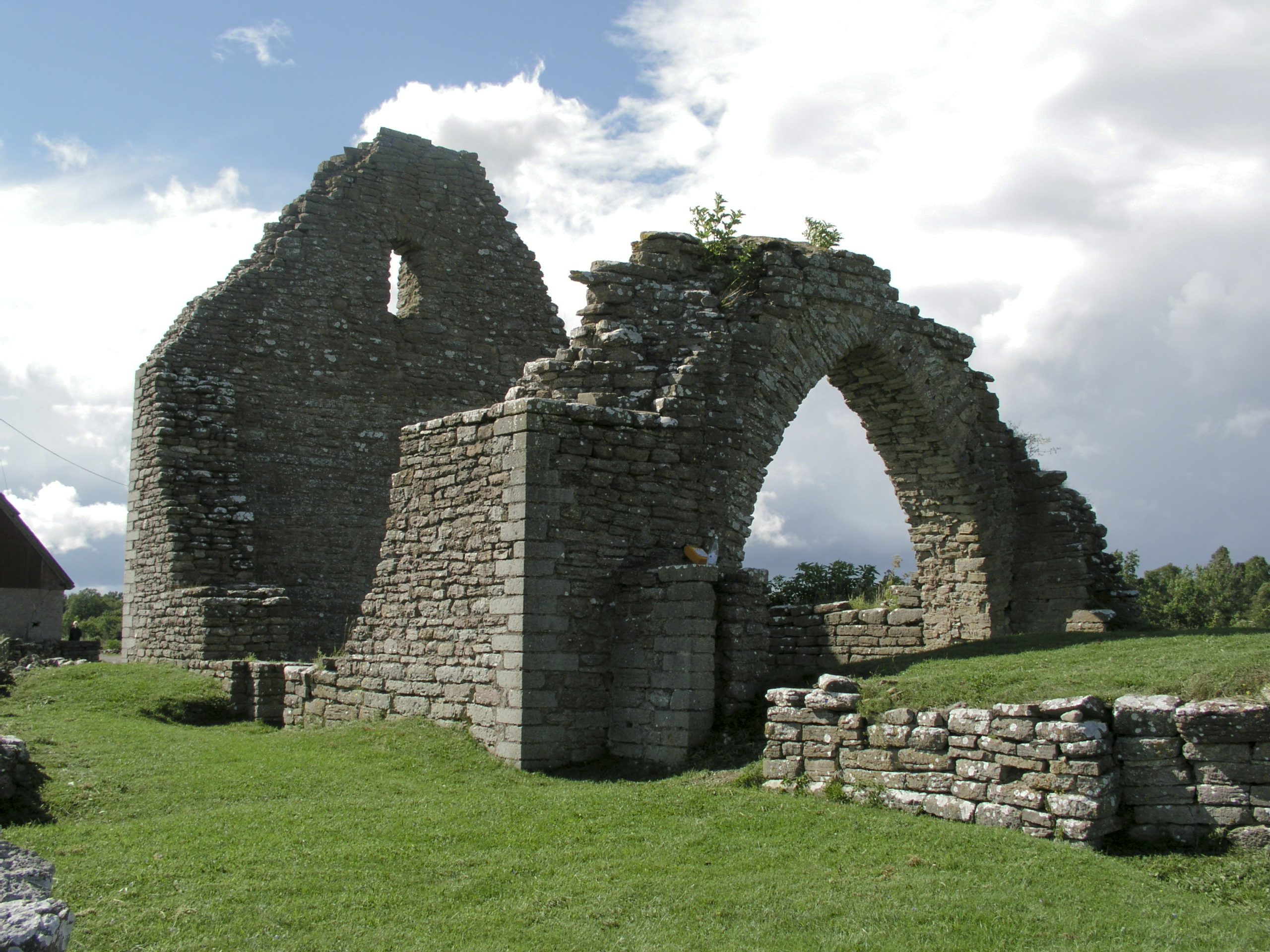 Ruins of St. Knut chapel, Öland, Sweden